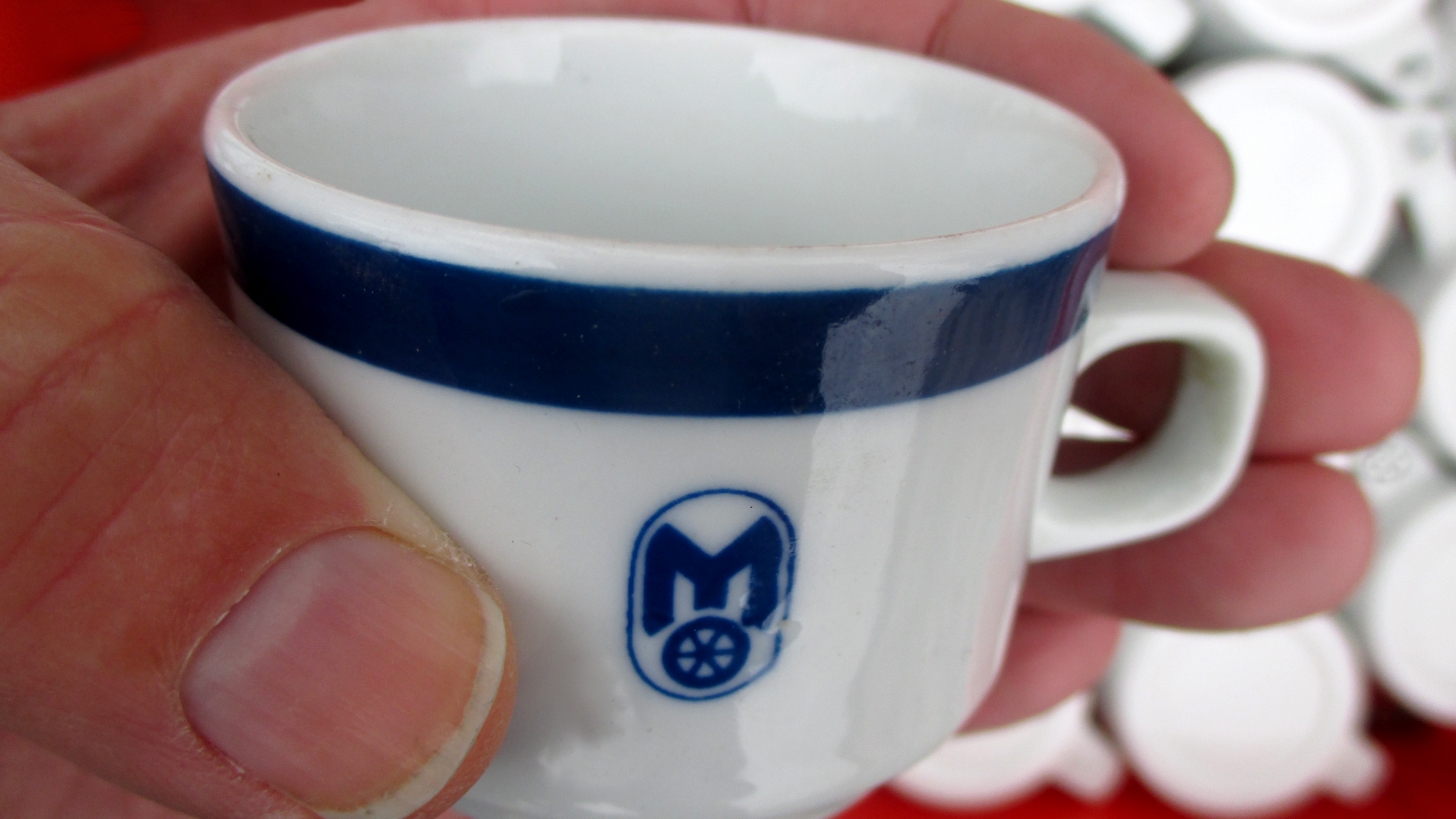 +MITROPA Reisedienst - DDR - Tasse klein - Bild 001